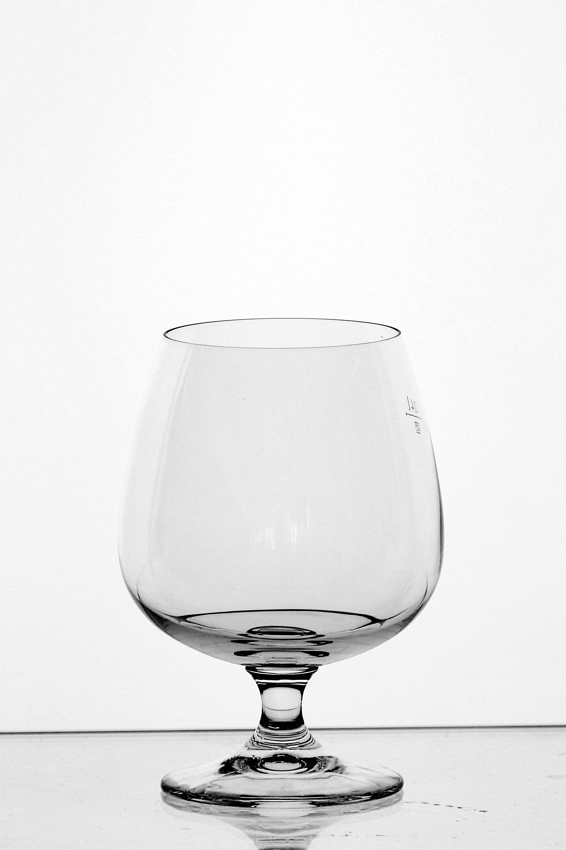 Cognac snifter